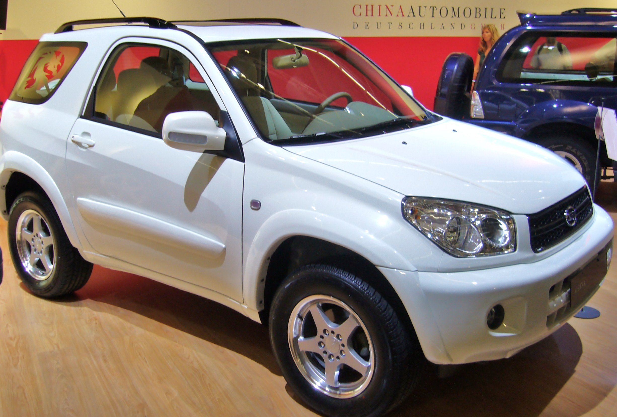 Jonway UFO (built by Gorlow in China)